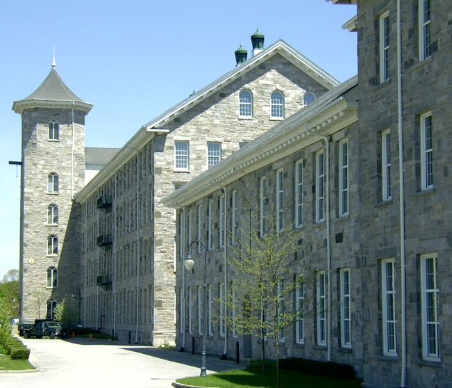 American Thread Company mill building, now no longer being used as a mill